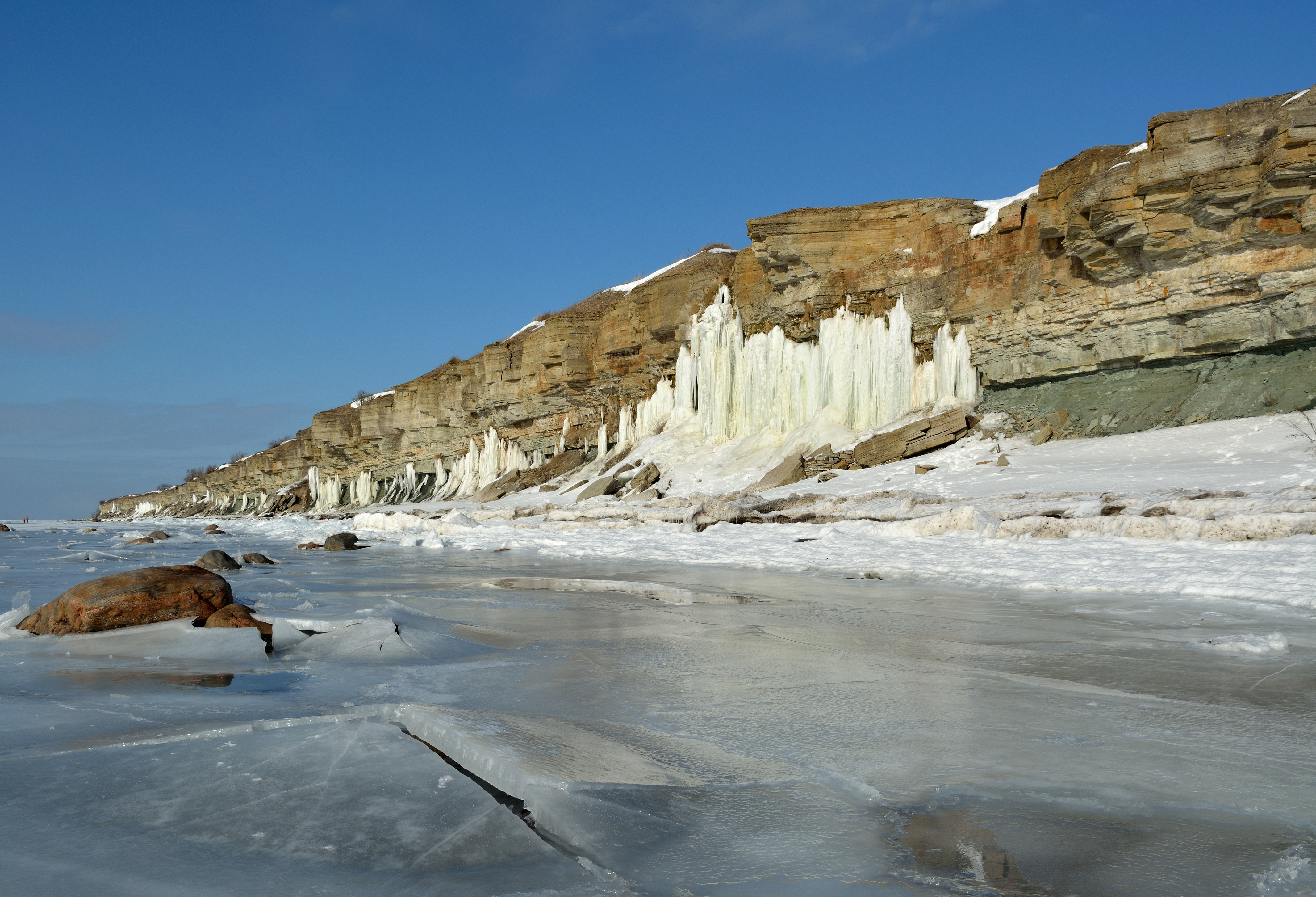 Pakri cliff, Pakri Landscape Reserve, Northwestern Estonia.